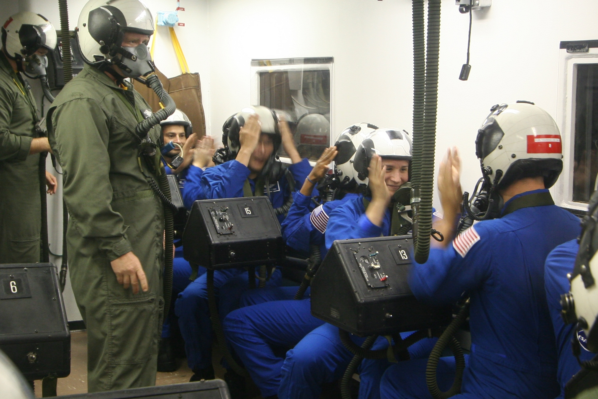 PENSACOLA, Fla. (Oct. 6, 2009) Hospital Corpsmen 2nd Class Kyle Carswell and Daniel Young monitor members of the 2009 class of NASA astronaut candidates for hypoxia in an altitude chamber. The altitude chamber training is part of physiology training at the U.S. Navy Aviation Survival Training Center before starting introductory flight training with Training Air Wing (TRAWING) 6 in Pensacola, Fla. (U.S. Navy photo by Ed Barker/Released)